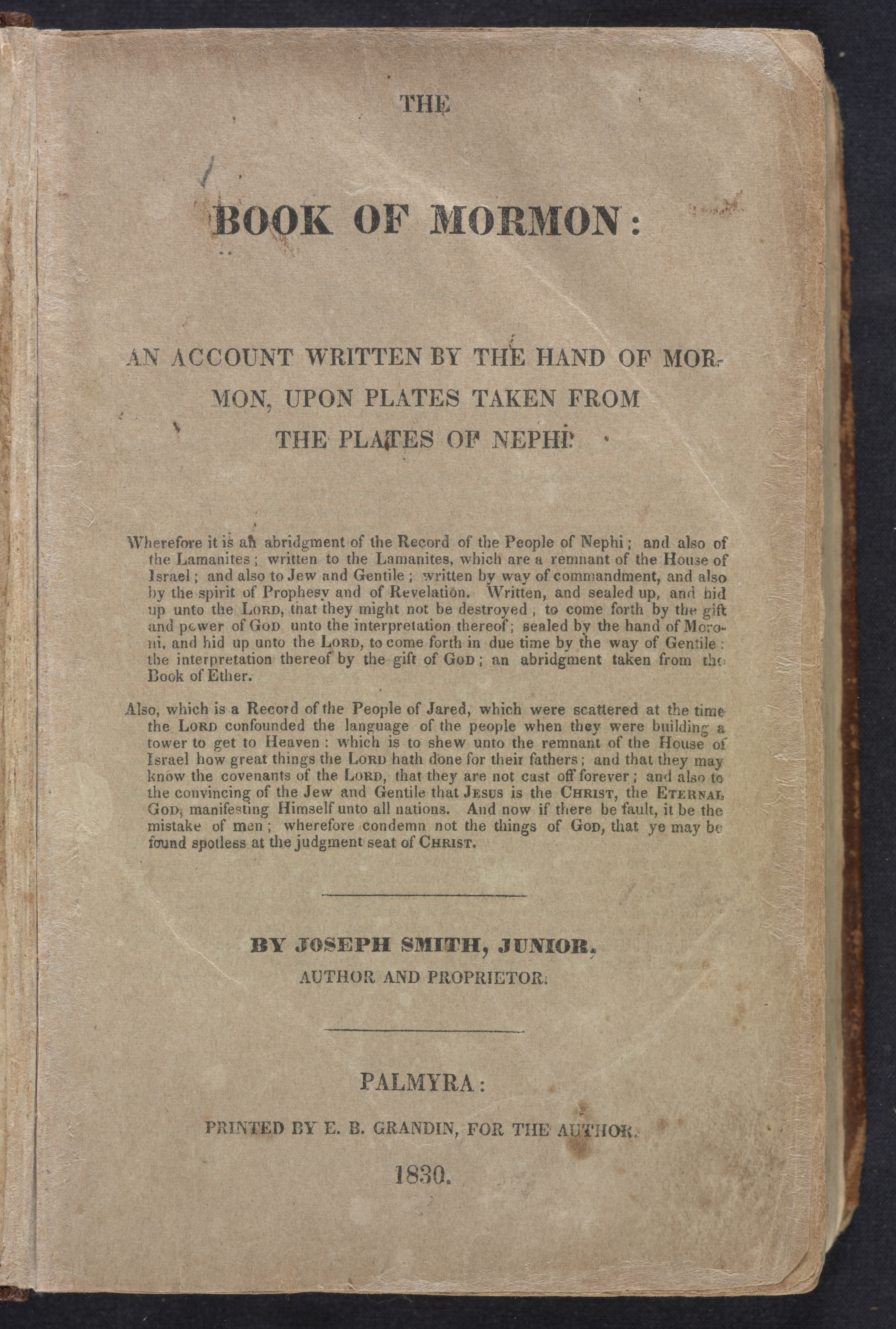 Title page of a 1830 copy of The Book of Mormon: An Account Written by the Hand of Mormon upon Plates Taken from the Plates of Nephi